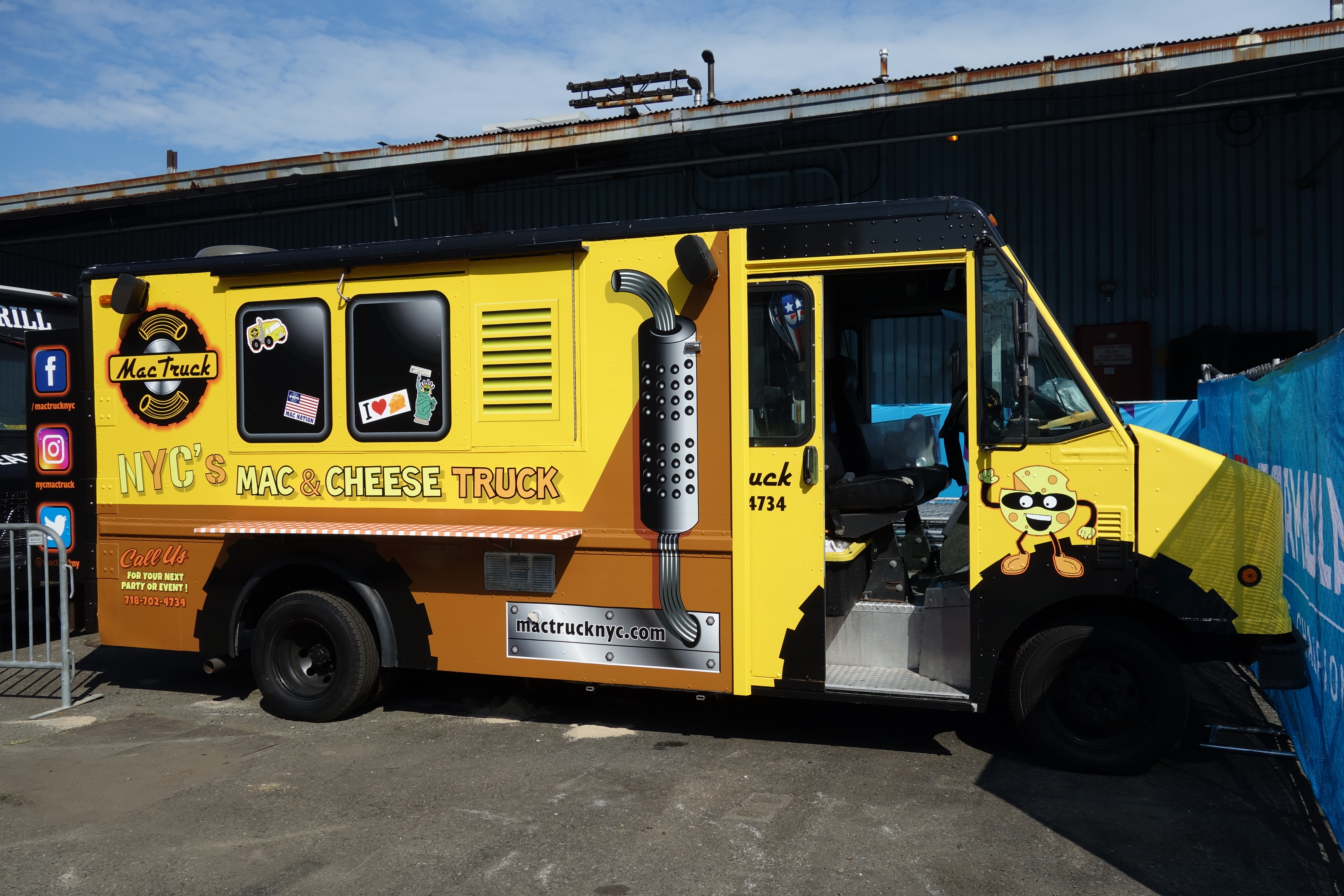 A NYC's Mac & Cheese Truck truck next to the main straight of the Brooklyn Street Circuit prior to first race of the 2018 New York City ePrix on Saturday, July 14, on Bowne Street between Commerce Street and Verona Street in Red Hook, Brooklyn. One of the features of the event is that nearly all the food service is provided by local street food vendors and restaurants as opposed to typical concessions.